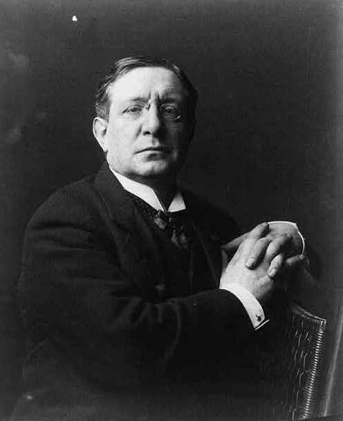 Title Benjamin Constant Summary half length portrait of the artist, seated, facing right. Contributor Names Johnston, Frances Benjamin, 1864-1952, photographer Created / Published [between ca. 1890 and ca. 1910] Format Headings Photographic prints--1890-1910. Portrait photographs--1890-1910. Notes - Title and other information transcribed from caption card and item. - Frances Benjamin Johnston Collection (Library of Congress). - No. 6187. - Caption card tracings: B.I.; Shelf. Medium 1 photographic print. Call Number/Physical Location LOT 11735 [item] [P&P]